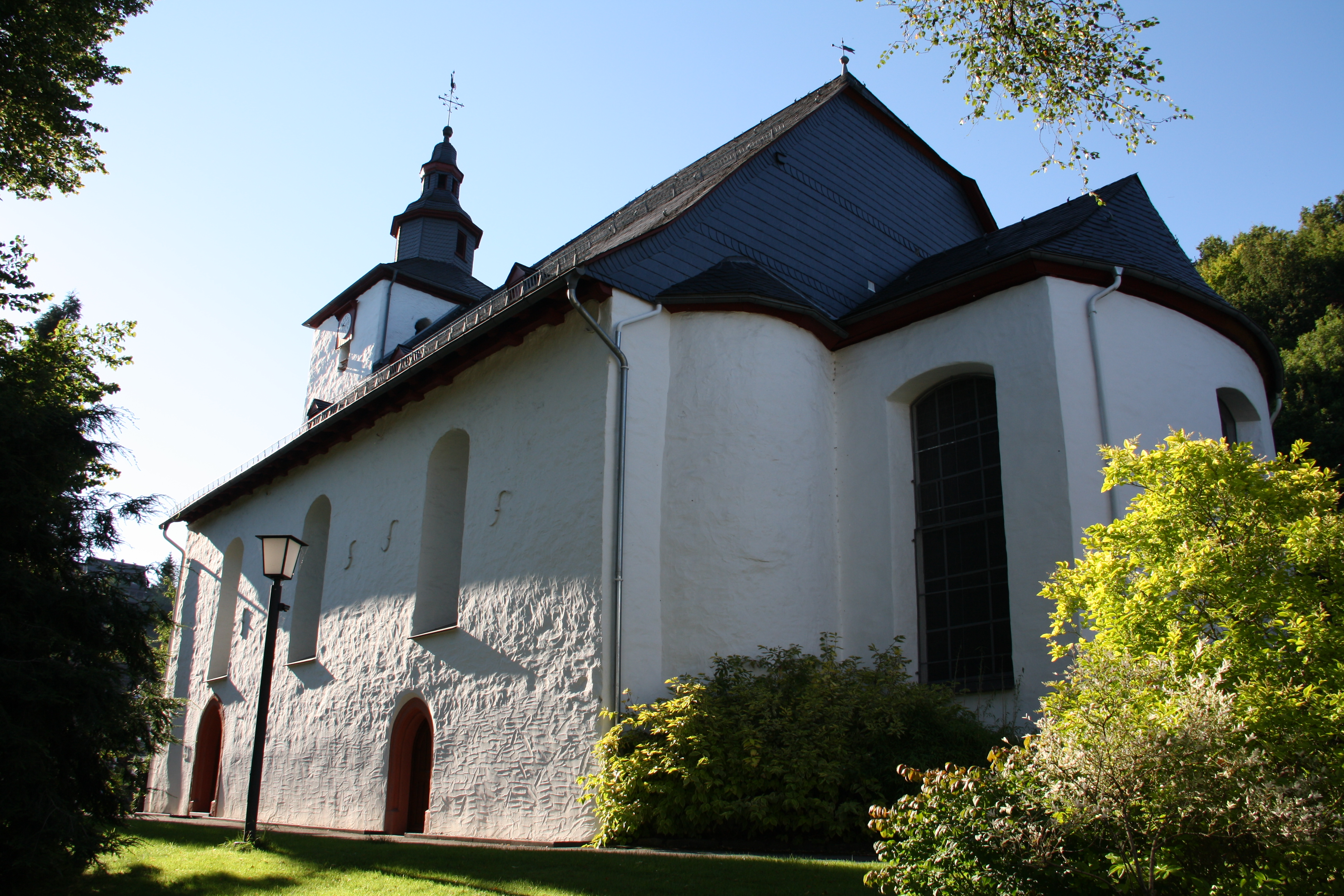 This is a photograph of an architectural monument., no. 064